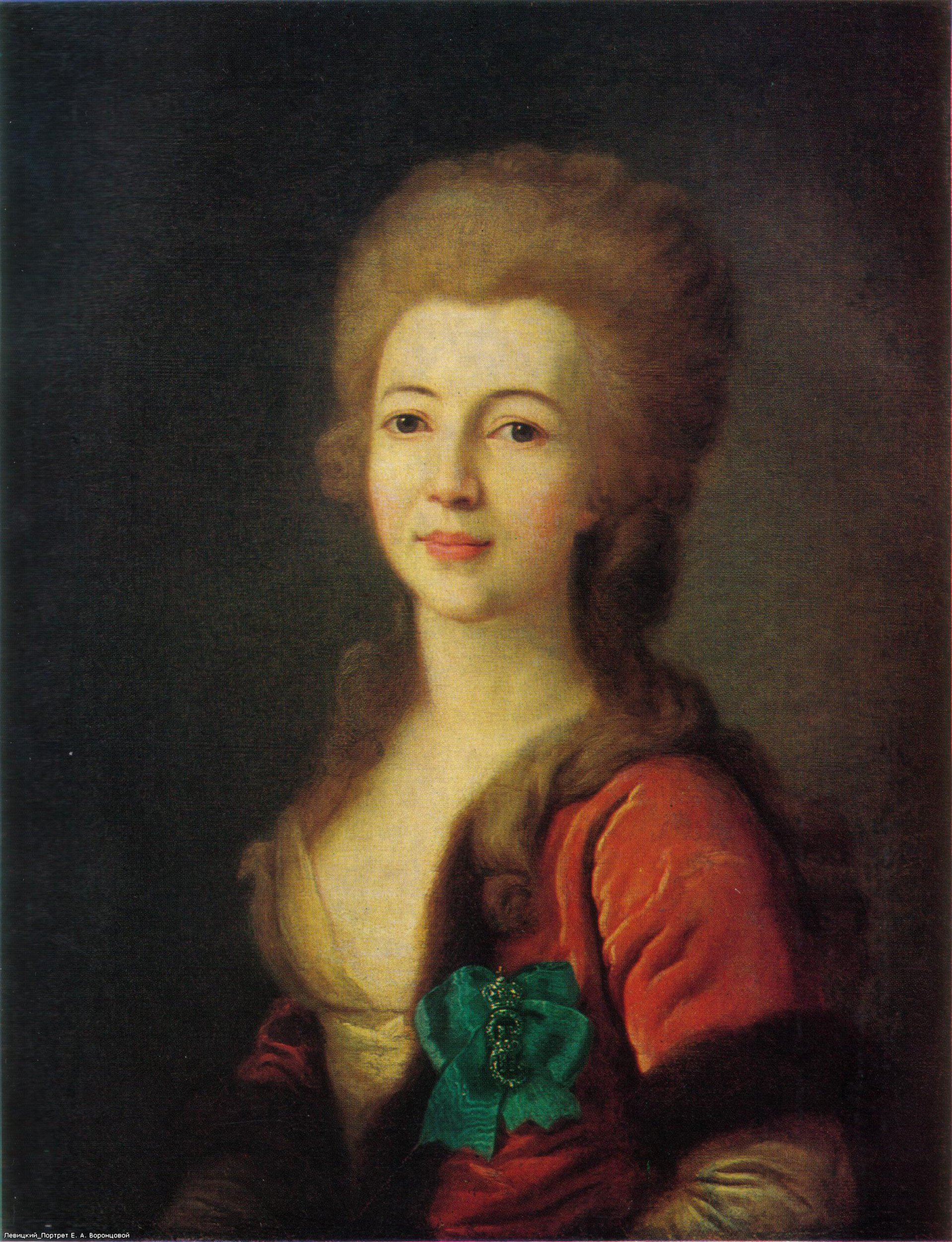 Portrait of Catherine Vorontsova (1761-1784)